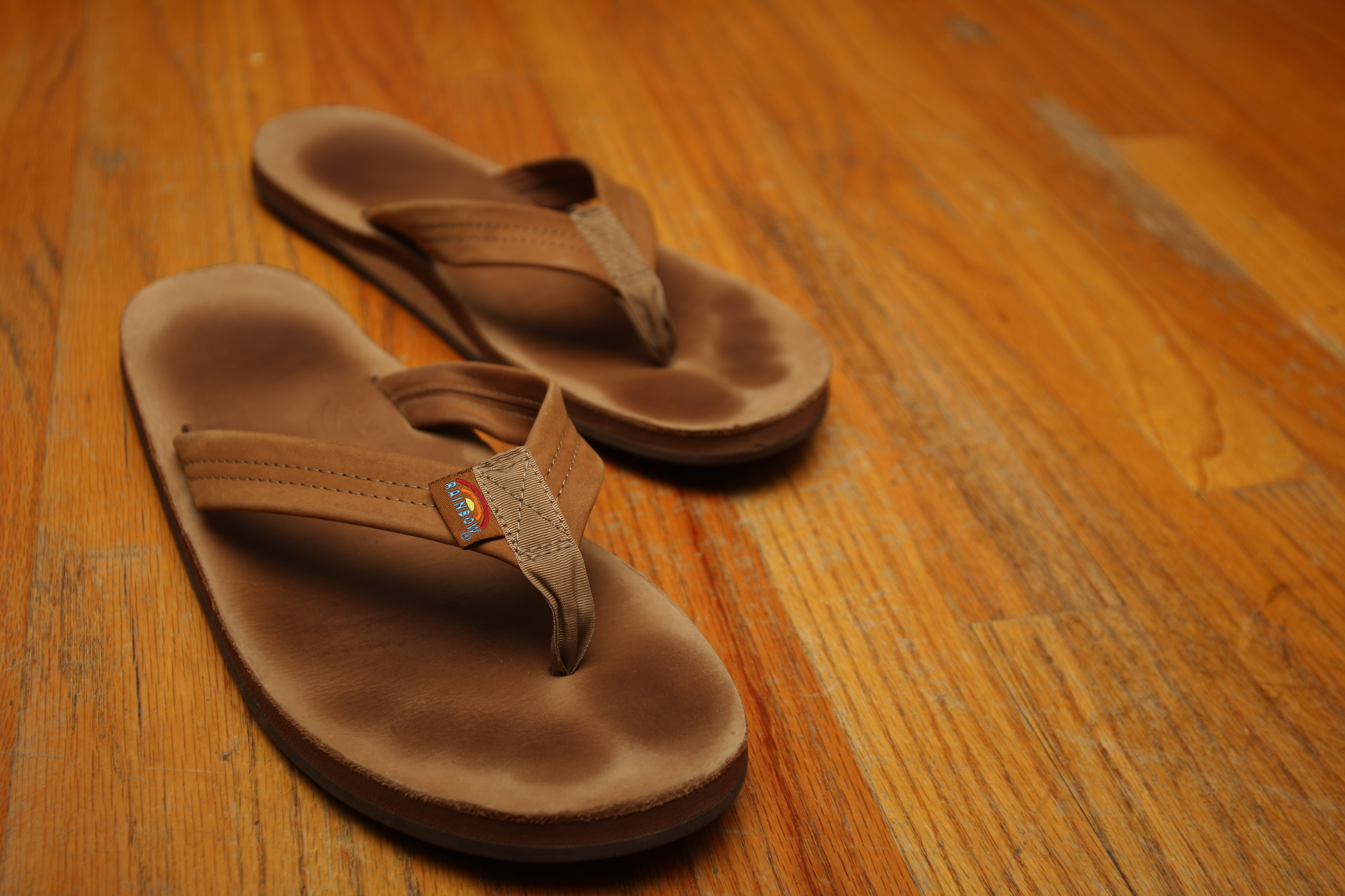 A pair of Rainbow flip flops demonstrating their property of conforming to the wearer's foot.